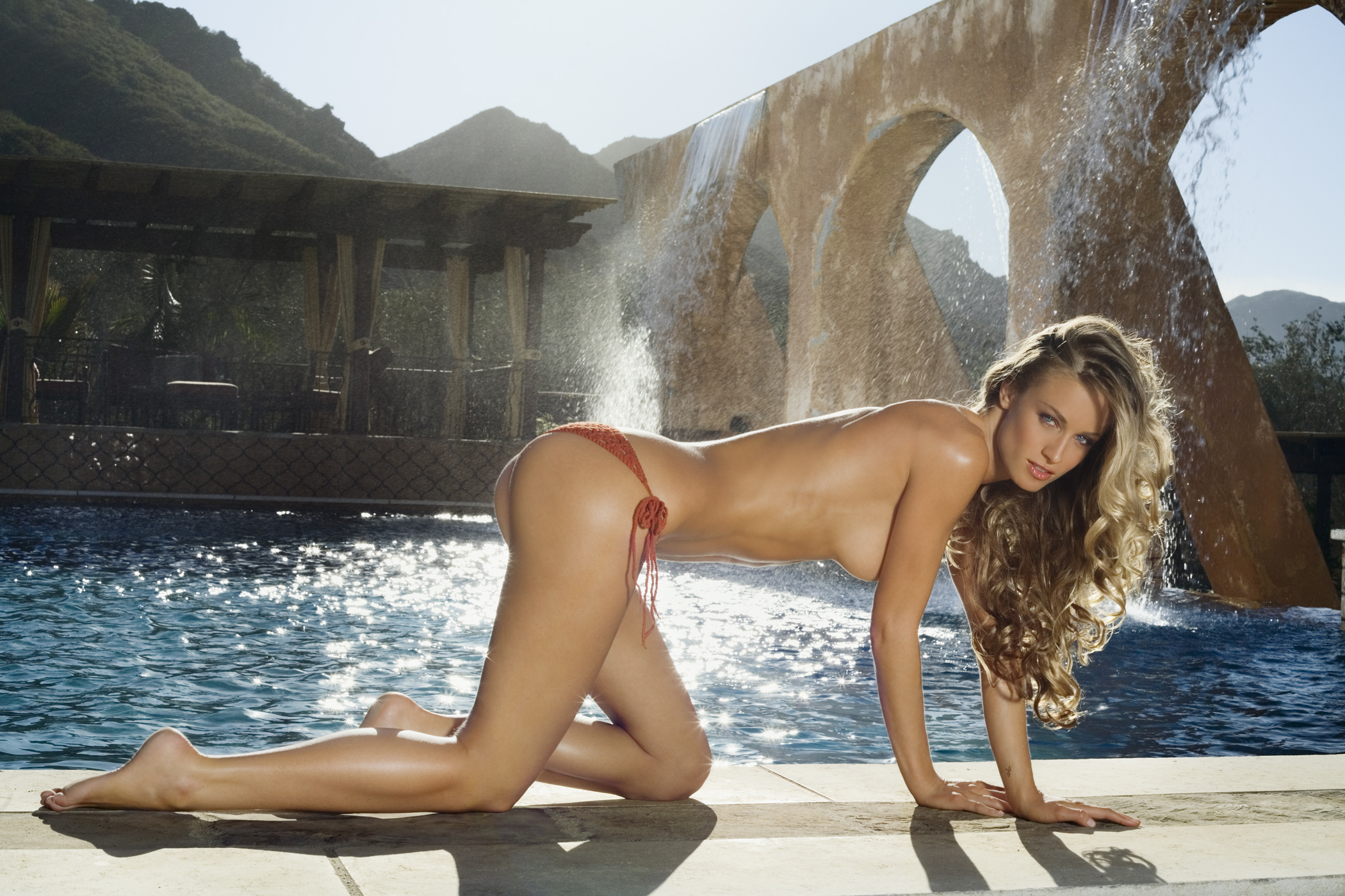 American model and television host Michele Merkin.